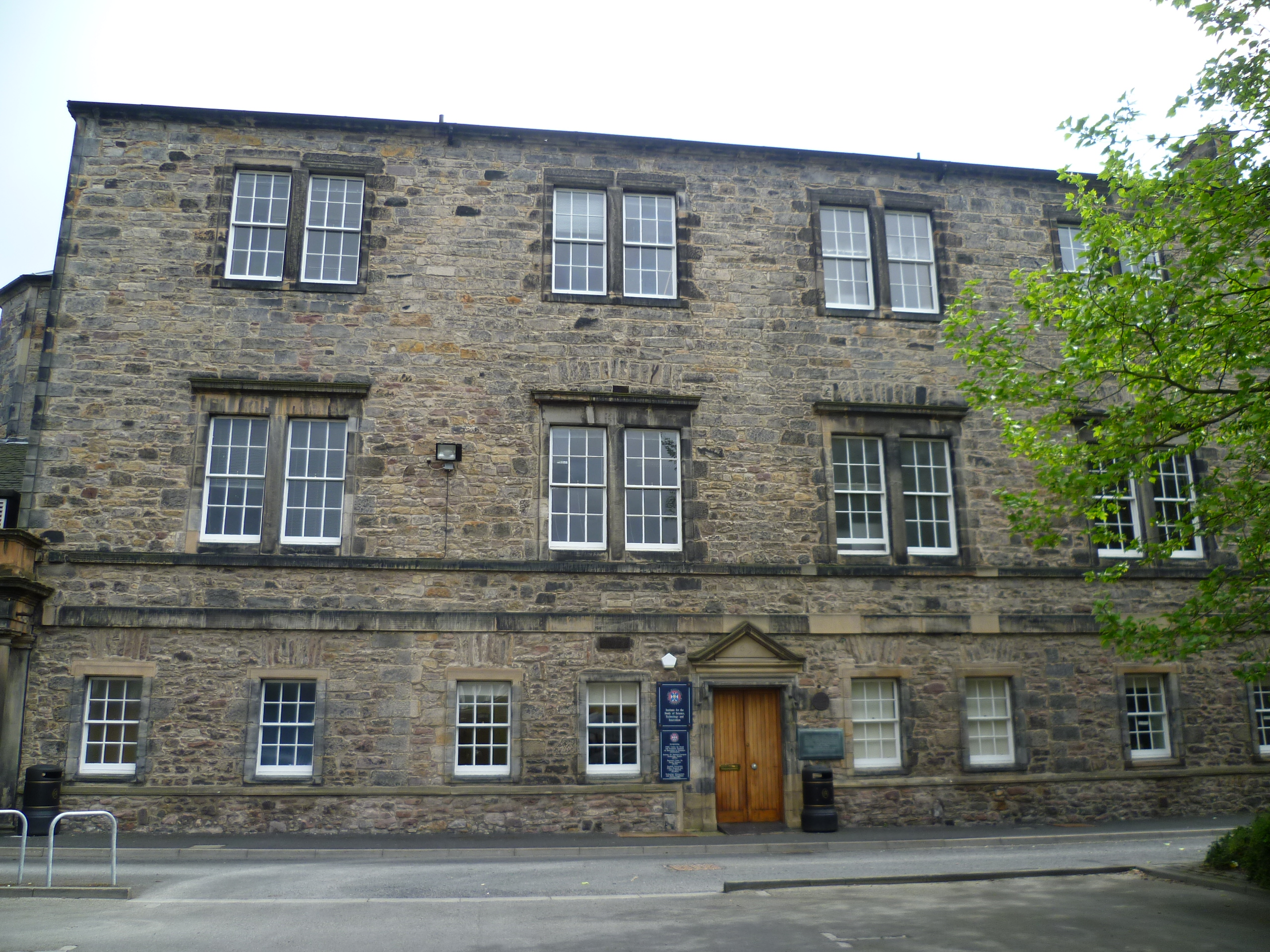 This building was the surgical hospital of the old Edinburgh Royal Infirmary. A plaque at the entrance states that the famous surgeon, Joseph Lister, was in charge of the wards here between 1869 and 1877.